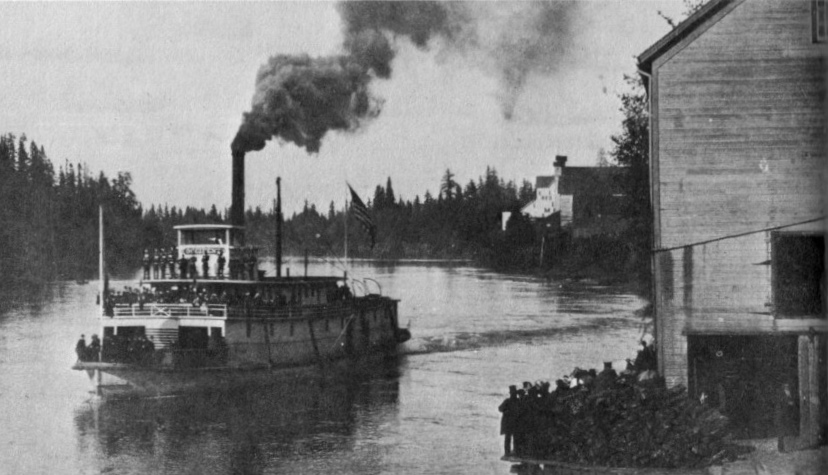 Stern-wheel steamboat Occident, at Albany, Oregon, near Red Crown Mills (white building on right), and also near where a railroad bridge would be built across the Willamette River. Historian Corning, who inspected the original, stated that a uniformed band and the top hats worn by the passengers mark the image as depicting a special occasion.